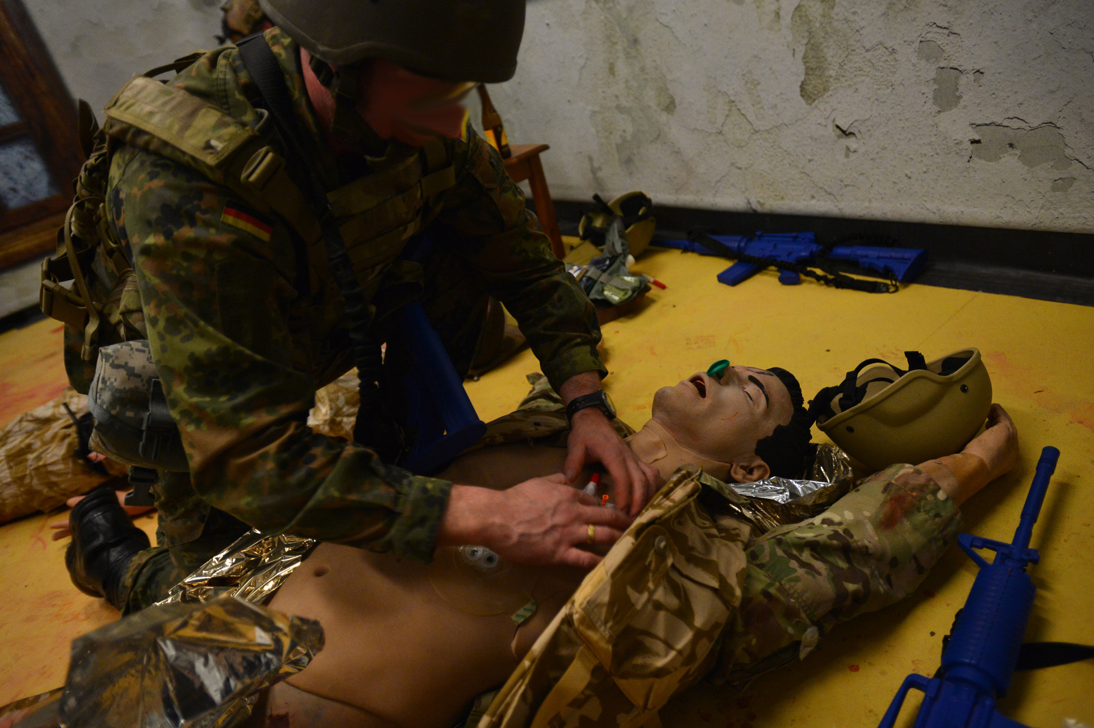 A German Army SOF medic attends to a mannequin with a chest wound at the ACME training facility in February 2014. The ACME serves as research and testing capability, testing SOF-specific medical equipment in a simulated environment.